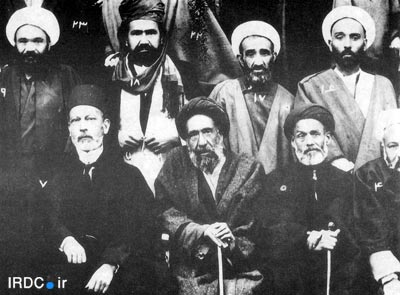 From right: Seyed Mohammad-Reza Mosavat, Seyed Hasan Modarres and Mirza Hossein Pirnia